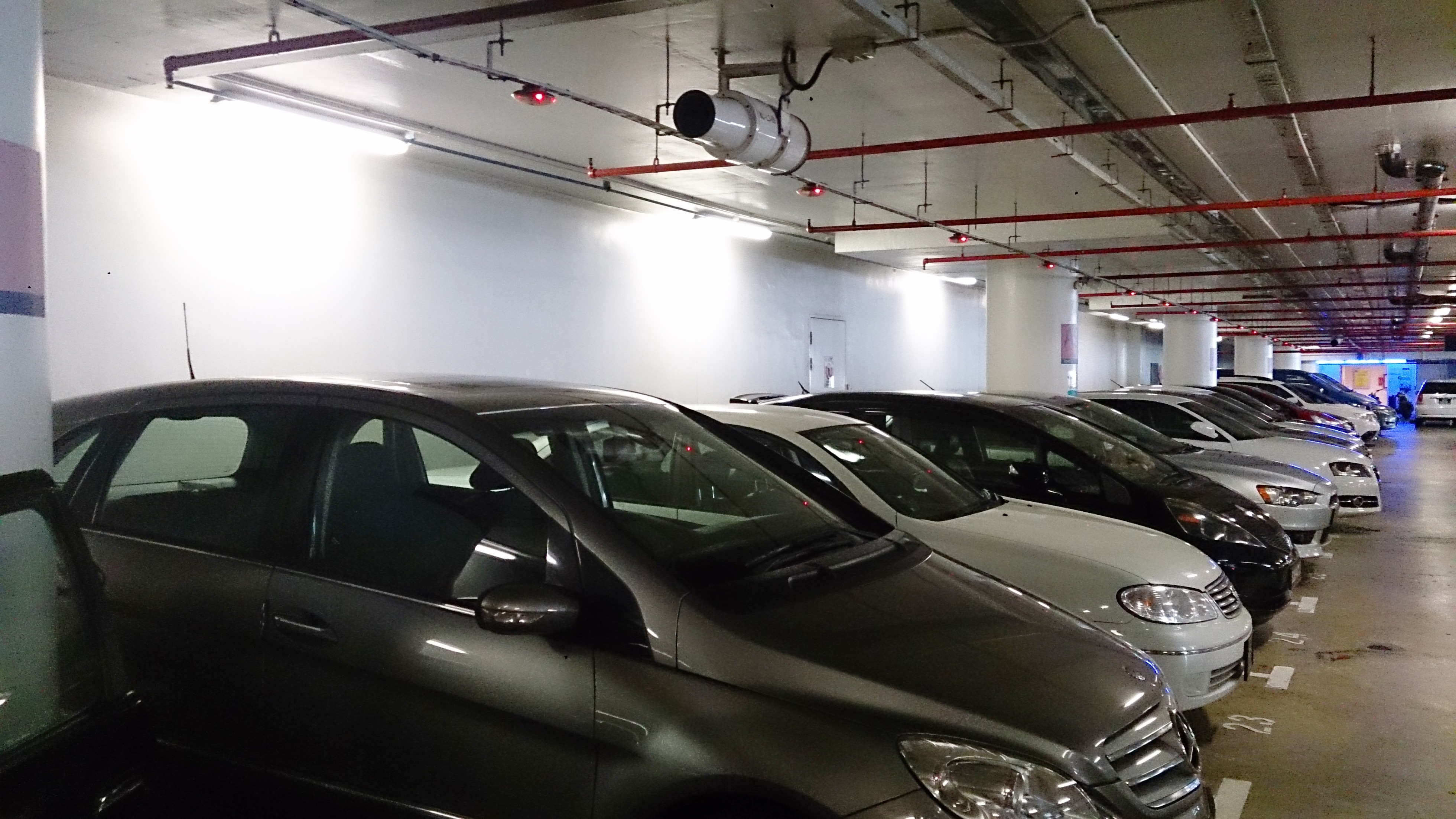 The device at each lot at this car park detects if a car is present directly beneath it. This helps to determine the number of available lots at a particular section or level.